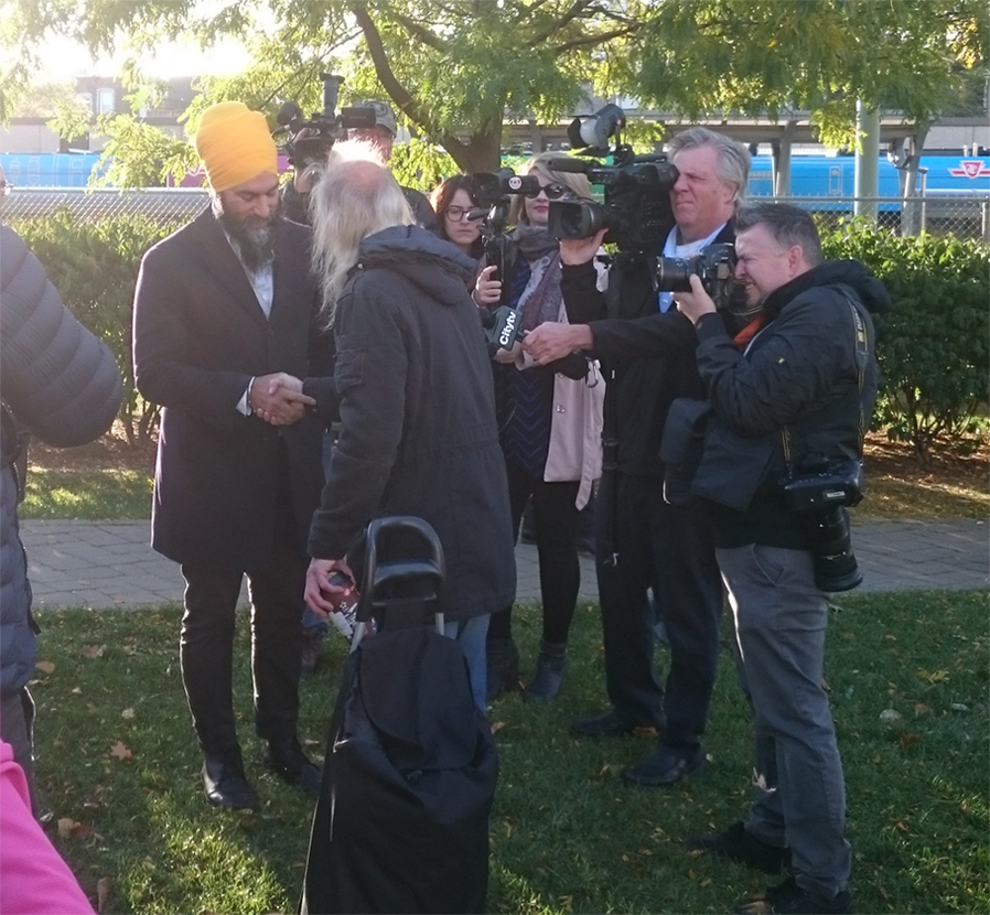 Leader of the New Democratic Party Jagmeet Singh shakes a man's hand during a surprise morning campaign stop at Broadview subway station in Toronto on October 15, 2019.